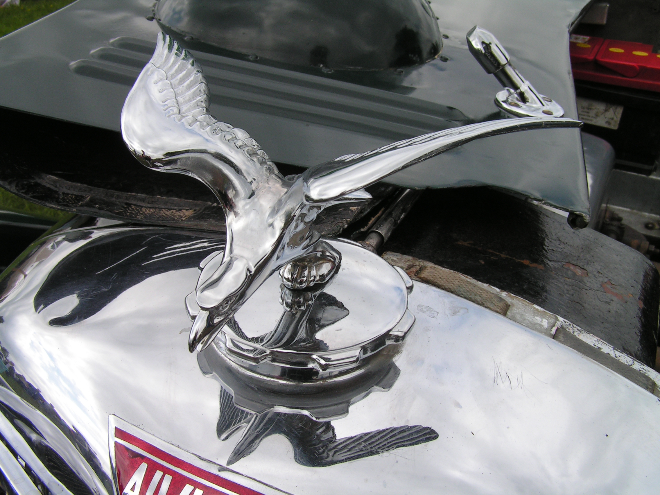 The Alvis Eagle